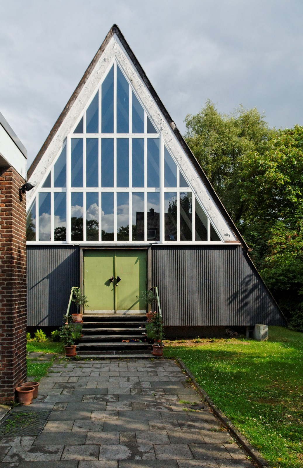 Saint Nicholas in Düsseldorf-Wersten, Germany